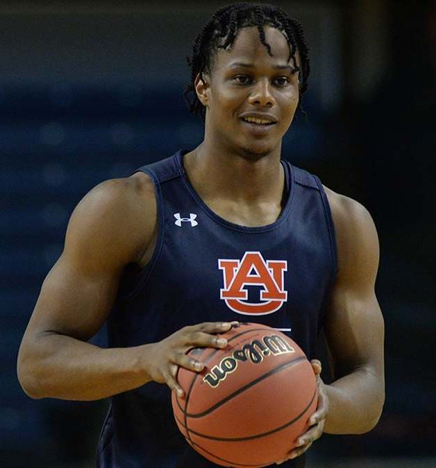 Isaac Okoro at 2019-20 Auburn basketball practice